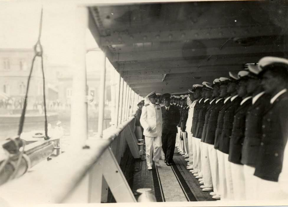 Admiral Ernesto Burzagli (1873-1944) during an inspection on his H. M. vessel "Libia" in 1922. The original picture, scanned by Emiliano Burzagli, belongs to the Private archive of Burzaghi family, Italy.